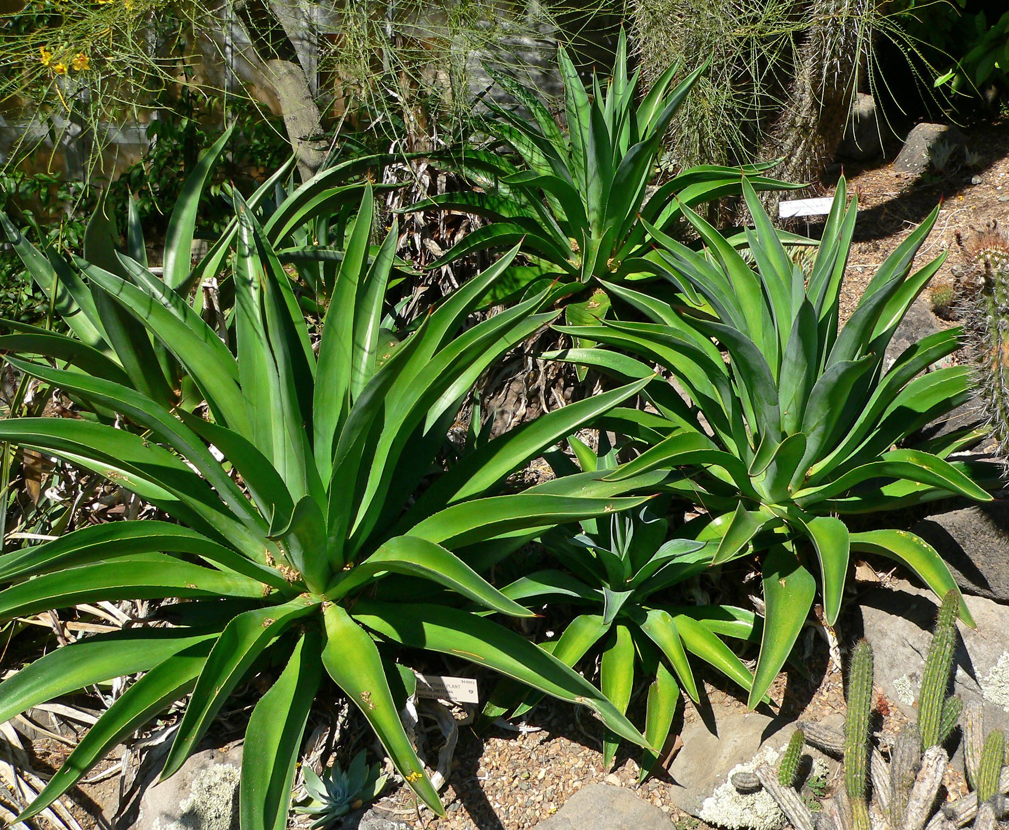 Agave desmettiana at the University of California Botanical Garden, Berkeley, California